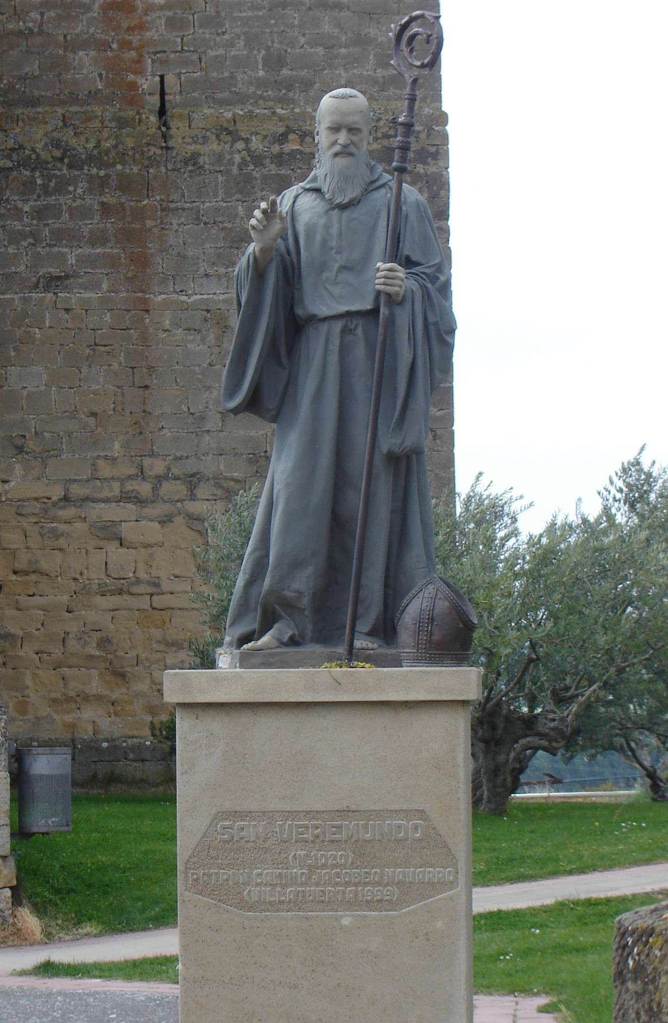 Saint Veremundus' sculpture at Villatuerta, his possible birthplace